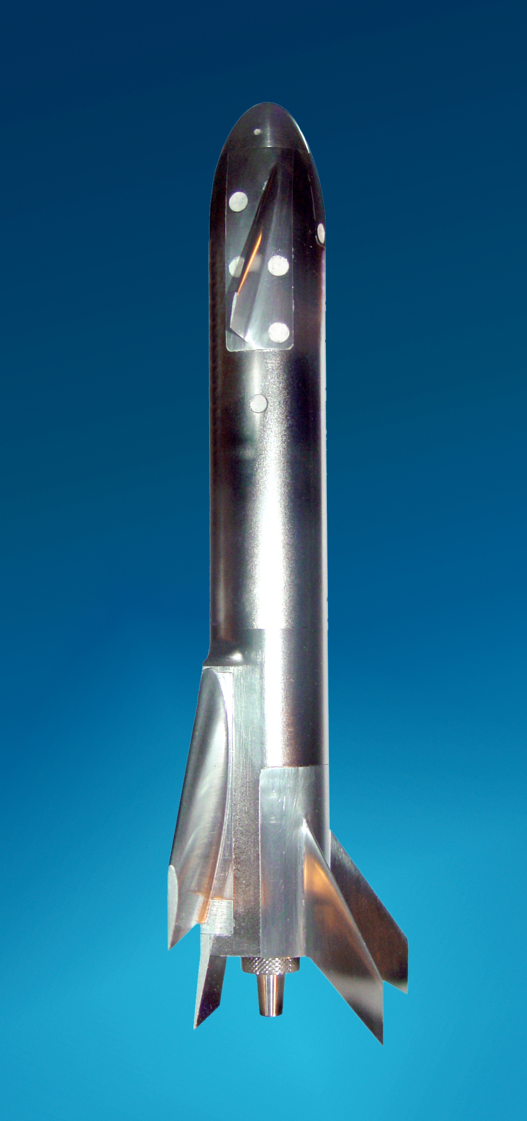 Wind tunnel model of a reusable booster (Ariane 5 Liquid Fly-back Booster) for force measurements of up to Ma = 7, photographed on the day of the German Aerospace Center (DLR) in Braunschweig